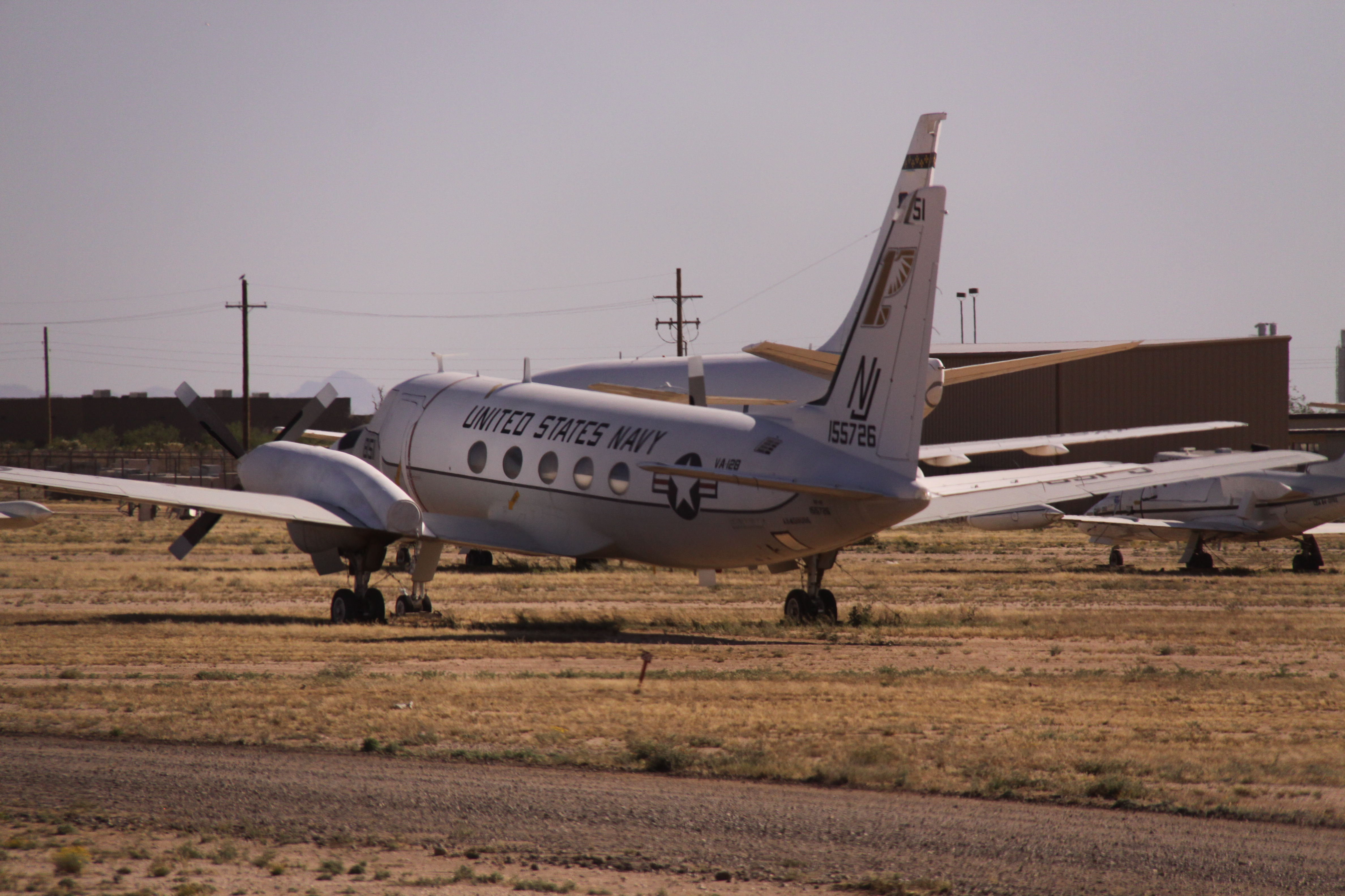 At Davis Monthan AFB